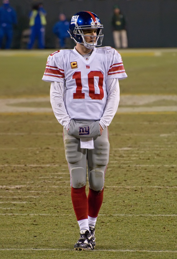 New York Giants vs. Green Bay Packers in the NFC Divisional Playoff Game at Lambeau Field on January 15, 2012. Photo by Mike Morbeck.